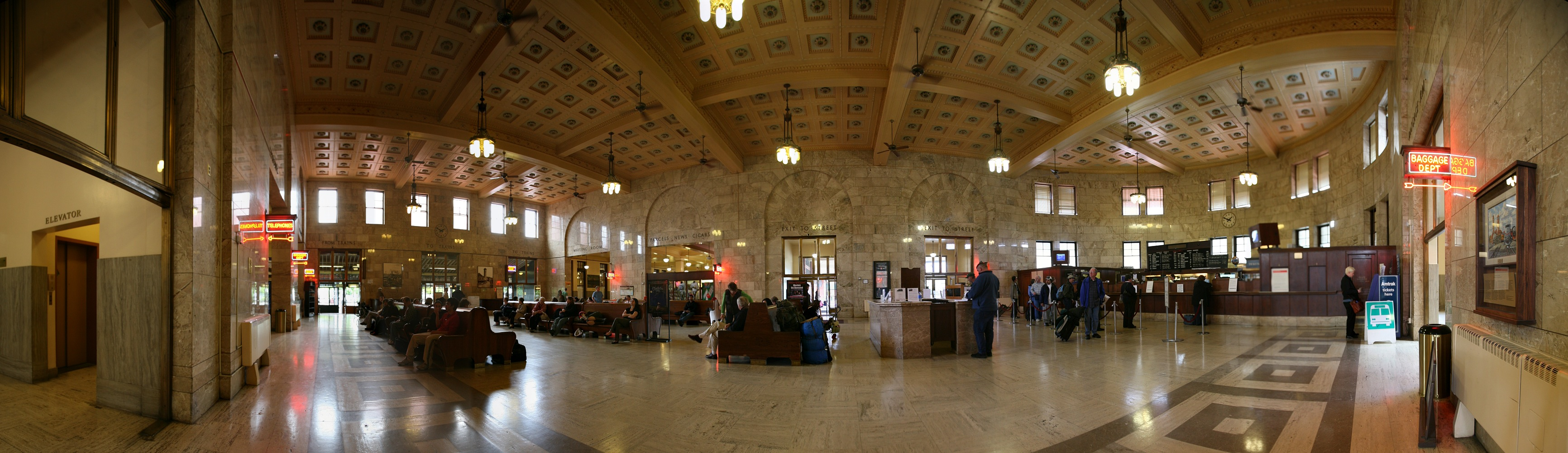 A panoramic image of the inside of Union Sation in Portland, Oregon.